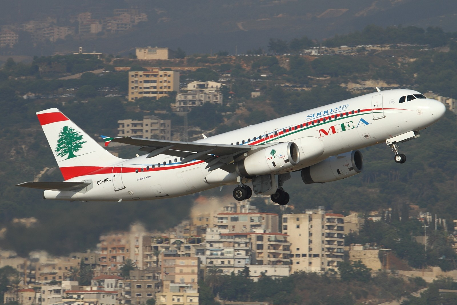 Airbus A320 of Middle East Airlines taking off from Beirut International Airport